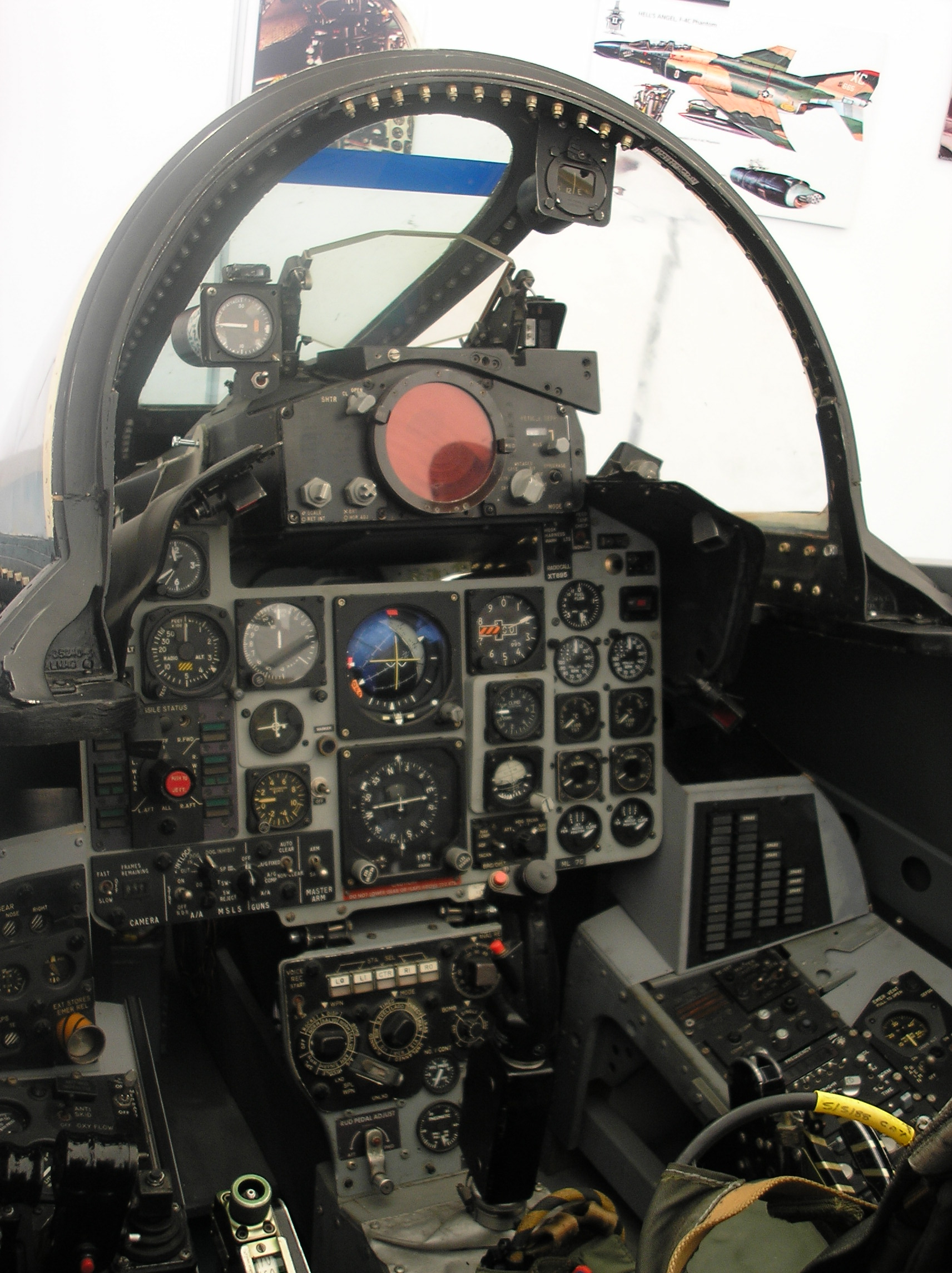 This is a photo of a military aircraft. I made this picture in an aviation exposition, it's copytight free ;)